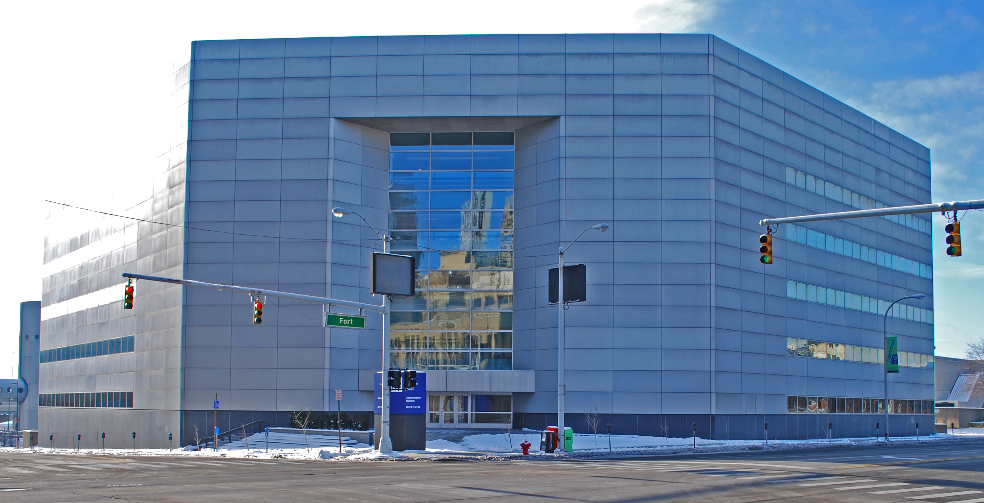 Wayne County Community College Fort St Detroit MI